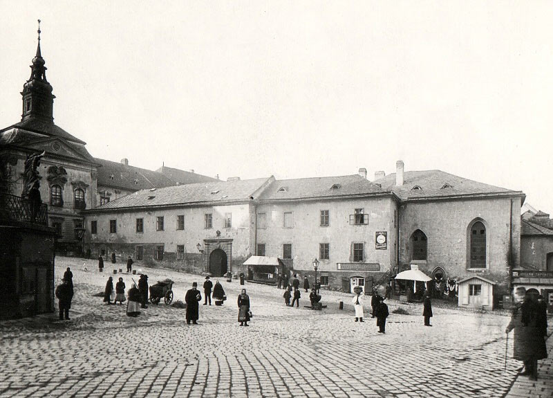 Dominikánské náměstí, Brno, Czech Republic